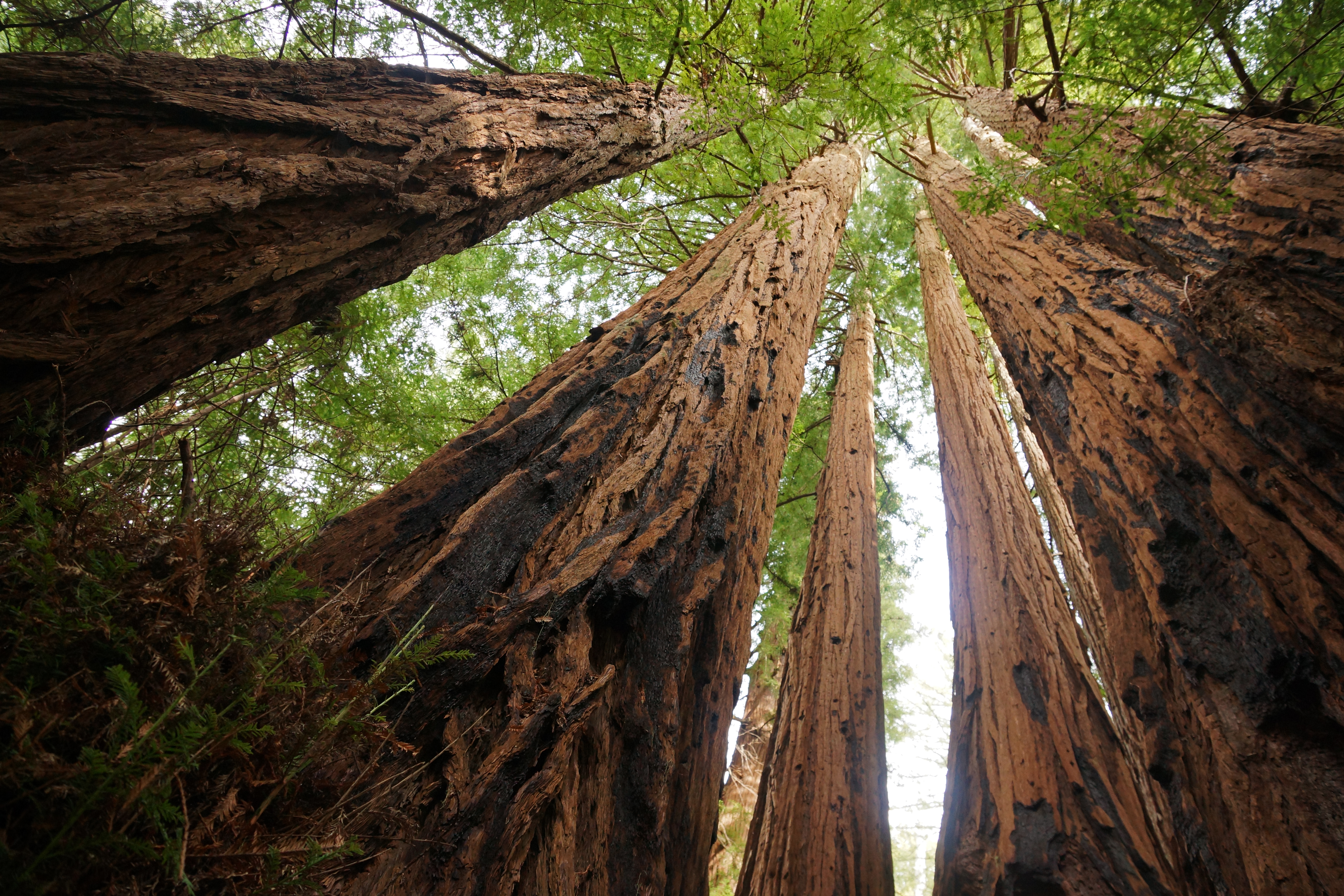 Coast Redwood Sequoia sempervirens forest, Capitola, Big Basin 122 Redwoods State Park